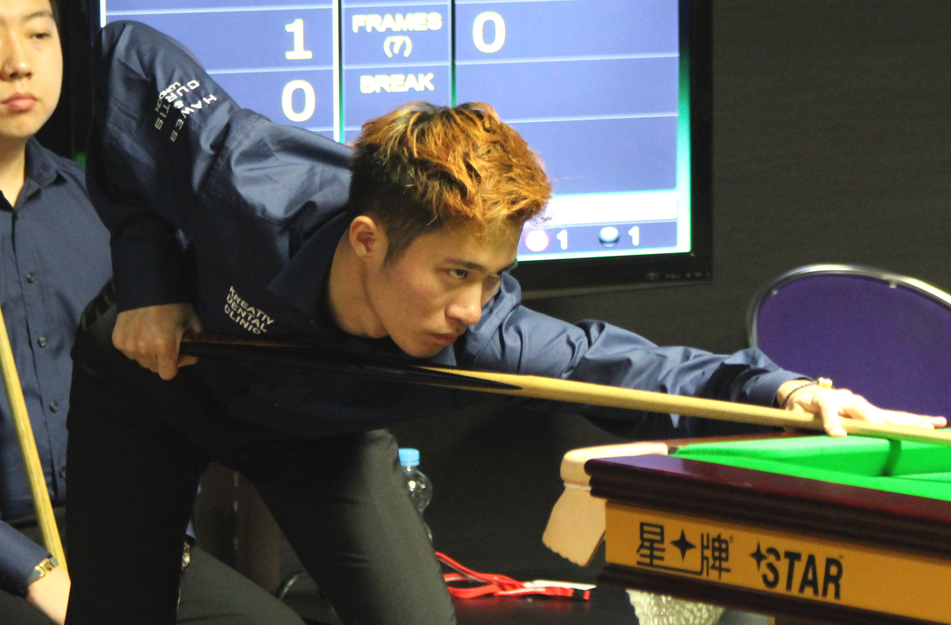 Cao Yupeng beim Paul Hunter Classic 2015